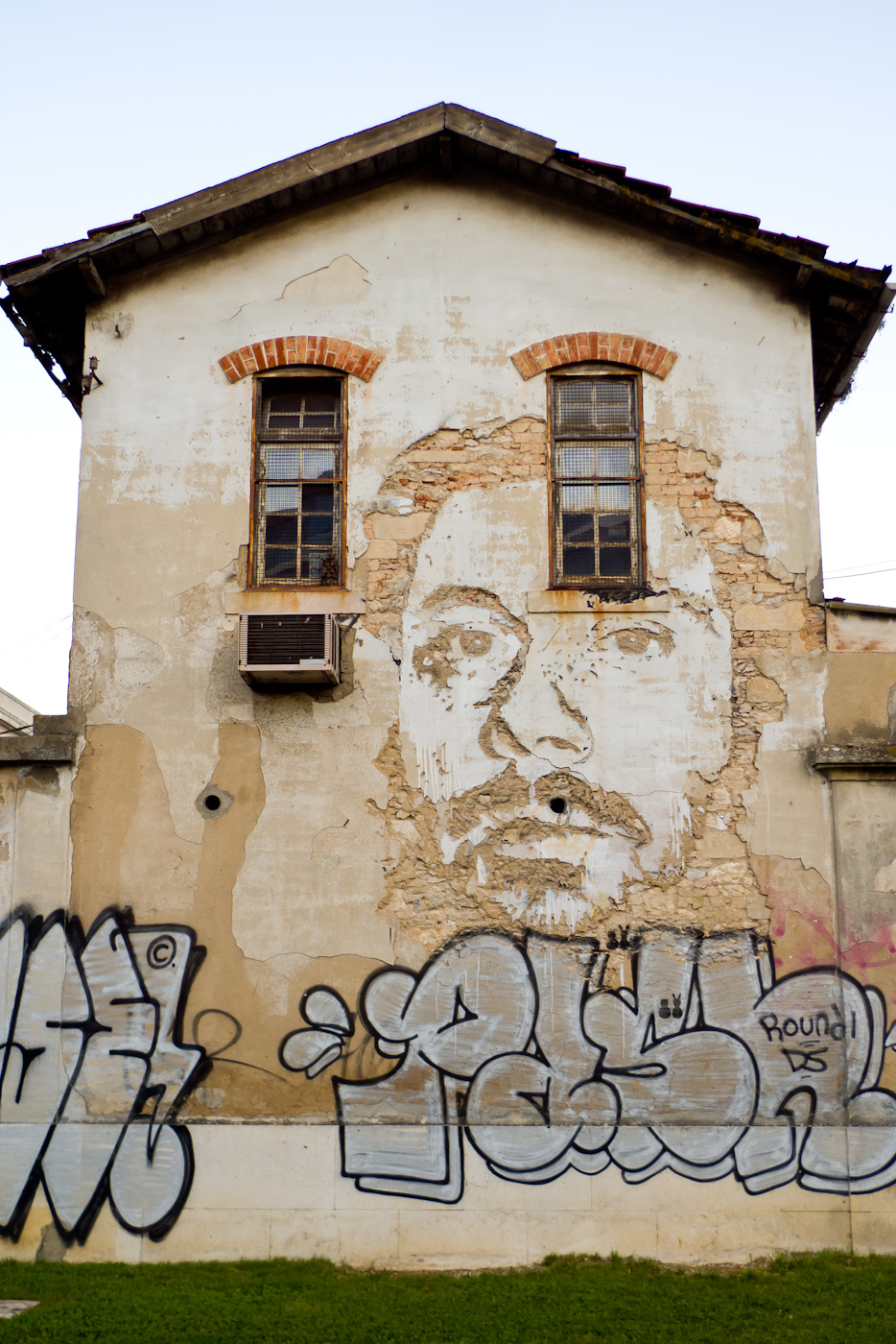 Proyecto Arte Urbana Crono Lisboa Vhils cronolisboa.tk/